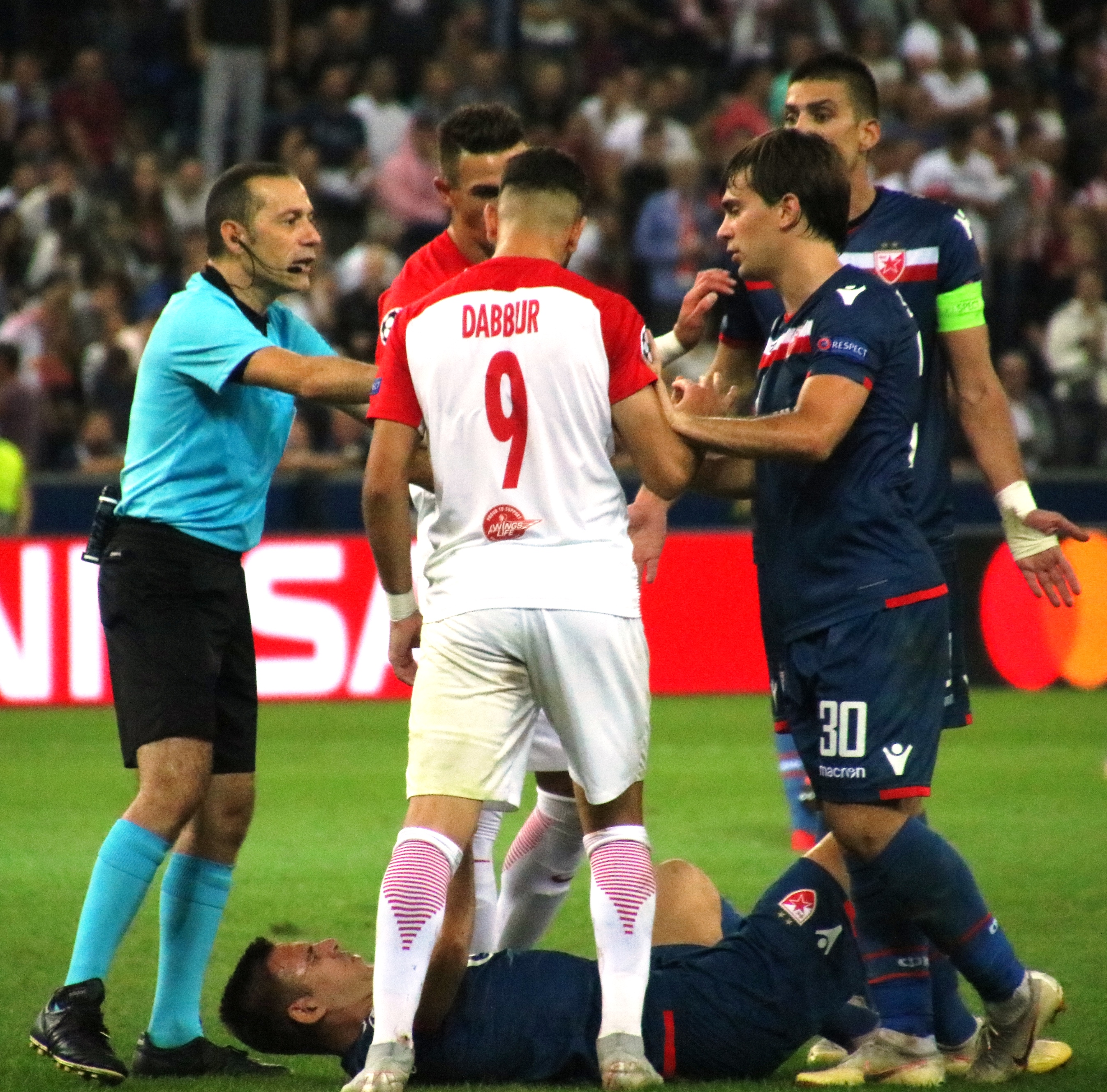 CL PLay off 29. August 2018 2nd leg